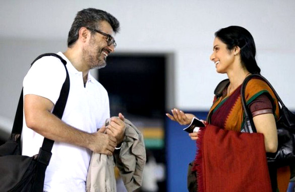 Actor Ajith Kumar and actress Sridevi on the sets of the film English Vinglish.